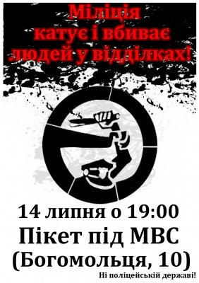 Sticker of "No to police state" campaign, shown the date of the protest near Ministry of Internal Affairs of Ukraine against police arbitrariness.